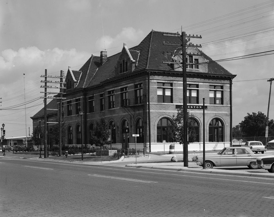 Northwestern view of the Creston Station of the Chicago, Burlington and Quincy Railroad, located at 200 W. Adams Street in Creston, Union County, Iowa, United States. Built in 1899, the station is listed on the National Register of Historic Places as "Chicago, Burlington and Quincy Railroad-Creston Station."